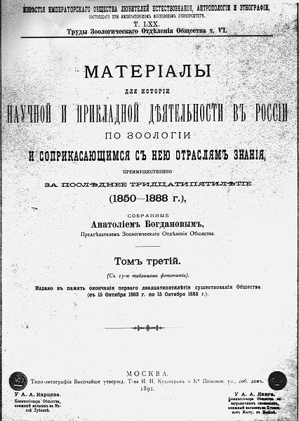 Proceedings of the Department of Zoology of the OLEAE (Imperial Society for Natural Science, Anthropology. and Ethnography), Moscow, 1891. Volume 3.